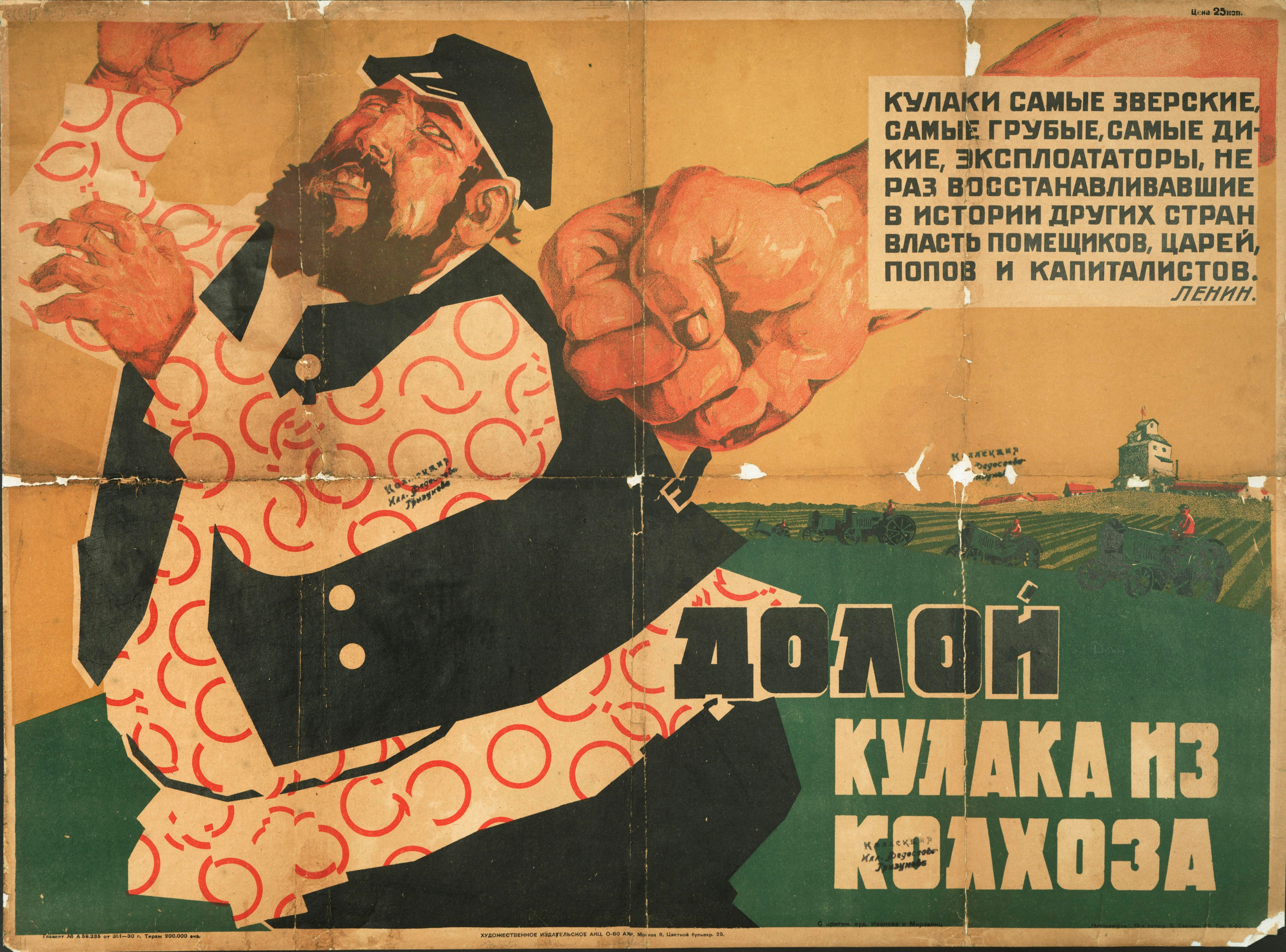 An obese peasant man in bright clothing to the left of the poster, is hit by a huge fist from the right. The background shows the Russian countryside under a yellow sky. Date: 1930 Persistent URL: misc 0660/2/1')